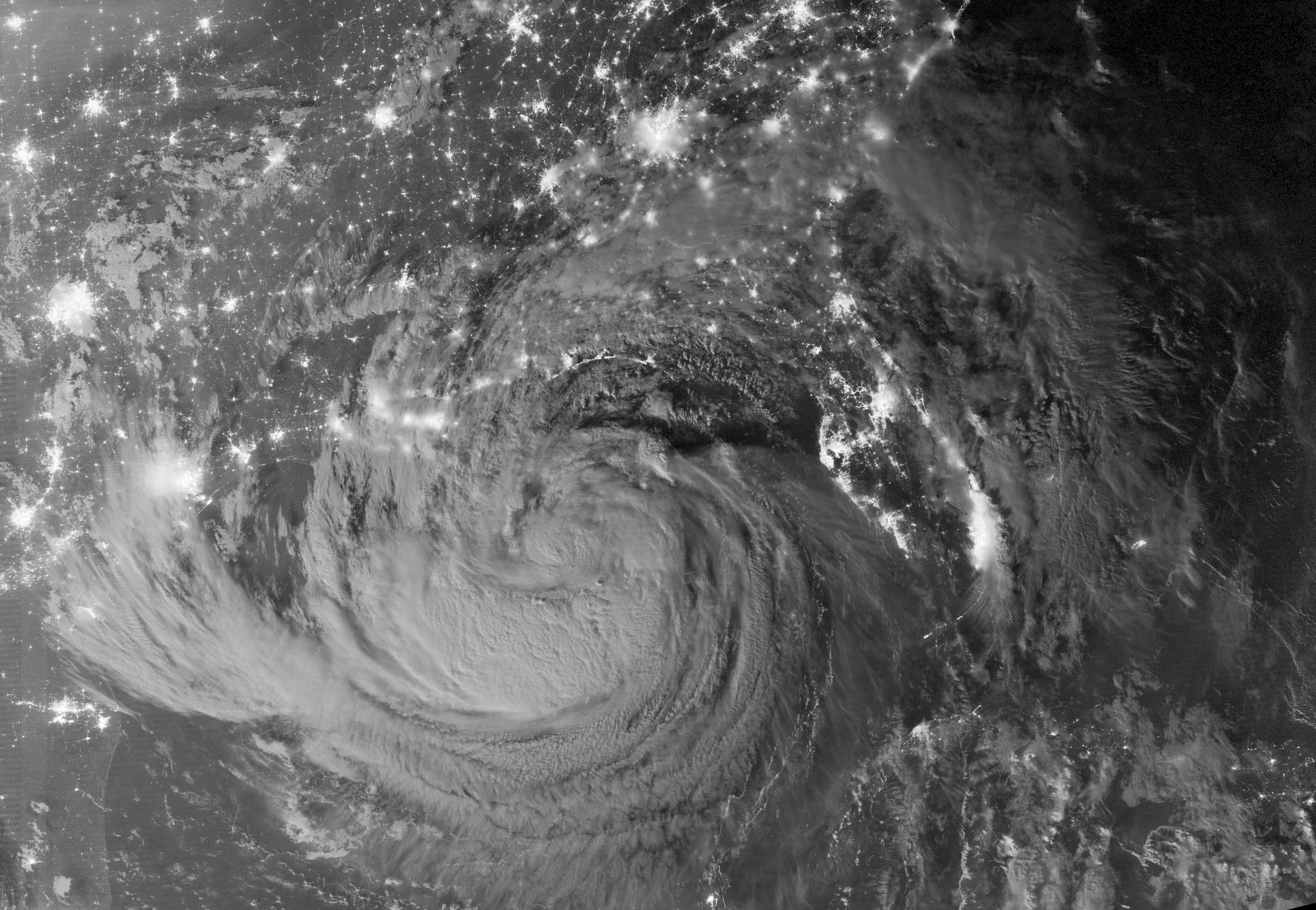 Hurricane Isaac by Night NASA image acquired August 28, 2012 Annotated view here: bit.ly/RsFT9Y Hurricane Isaac lit up by moonlight as it spins over the city of New Orleans, La., early on the morning of August 28, 2012. The Suomi National Polar-orbiting Partnership (NPP) satellite captured these images with its Visible Infrared Imaging Radiometer Suite (VIIRS). The "day-night band" of VIIRS detects light in a range of wavelengths from green to near-infrared and uses light intensification to enable the detection of dim signals. Suomi NPP is the result of a partnership between NASA, the National Oceanic and Atmospheric Administration and the Department of Defense. Image Credit: NASA/NOAA, Earth Observatory NASA Earth Observatory image by Jesse Allen and Robert Simmon, using VIIRS Day Night Band data. Credit: NASA Earth Observatory